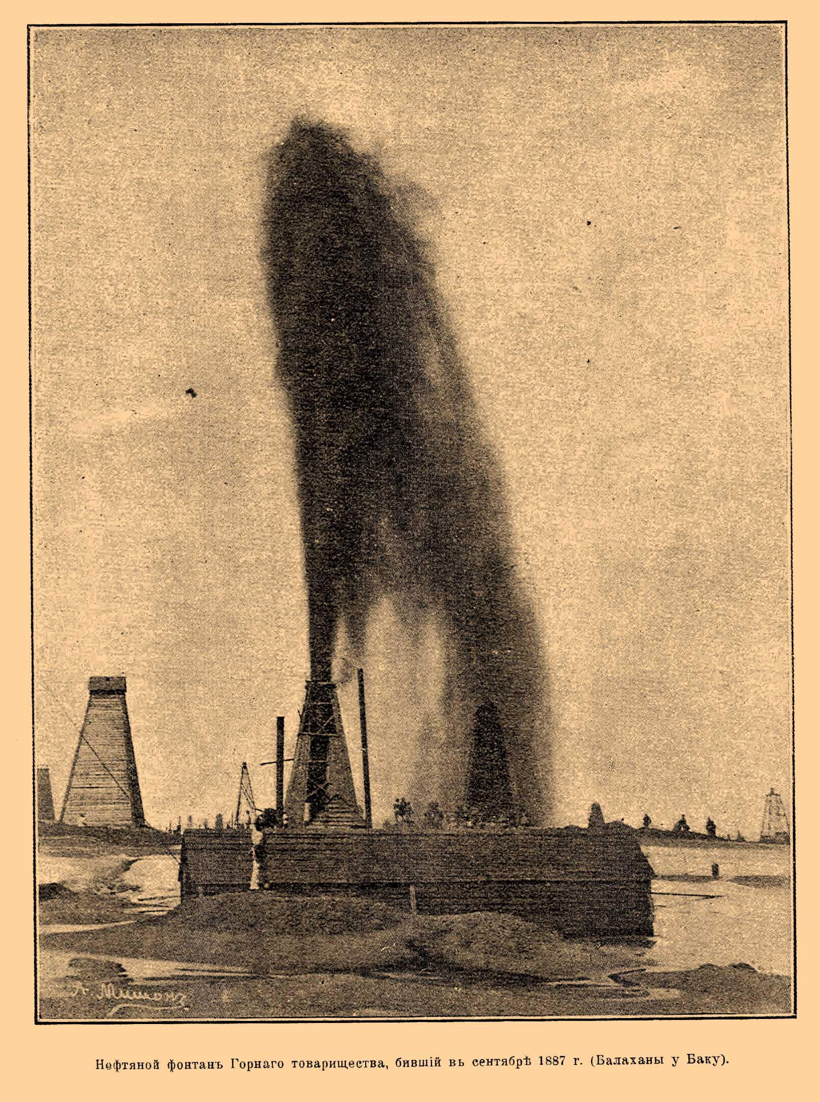 Illustration from Brockhaus and Efron Encyclopedic Dictionary (1890—1907)